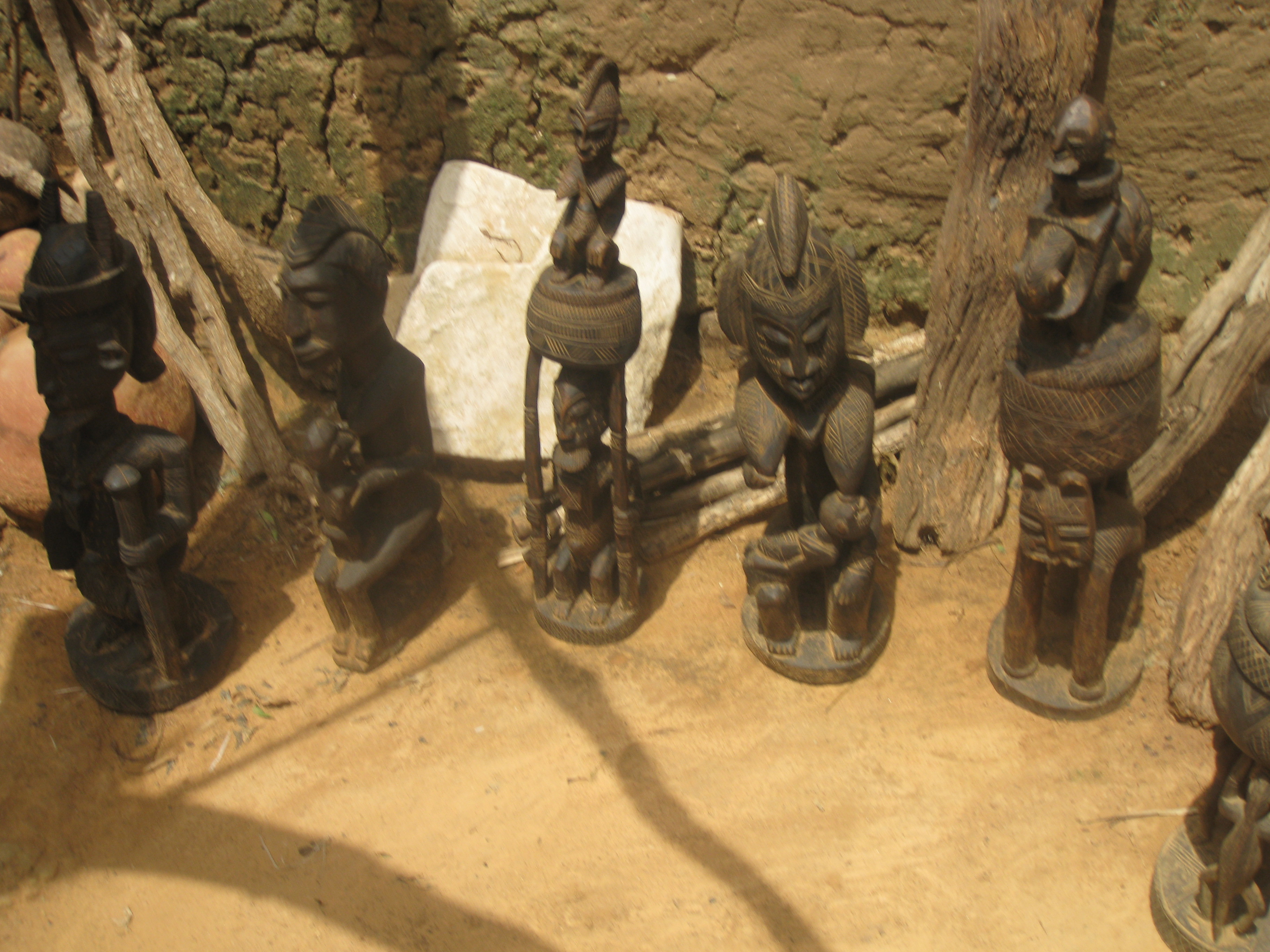 Dogon sculptures, art, Mali